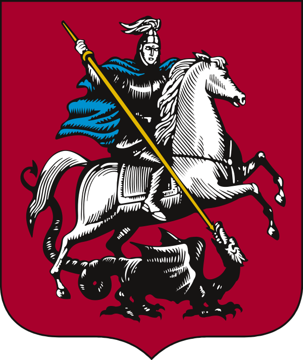 Coat of Arms of Moscow